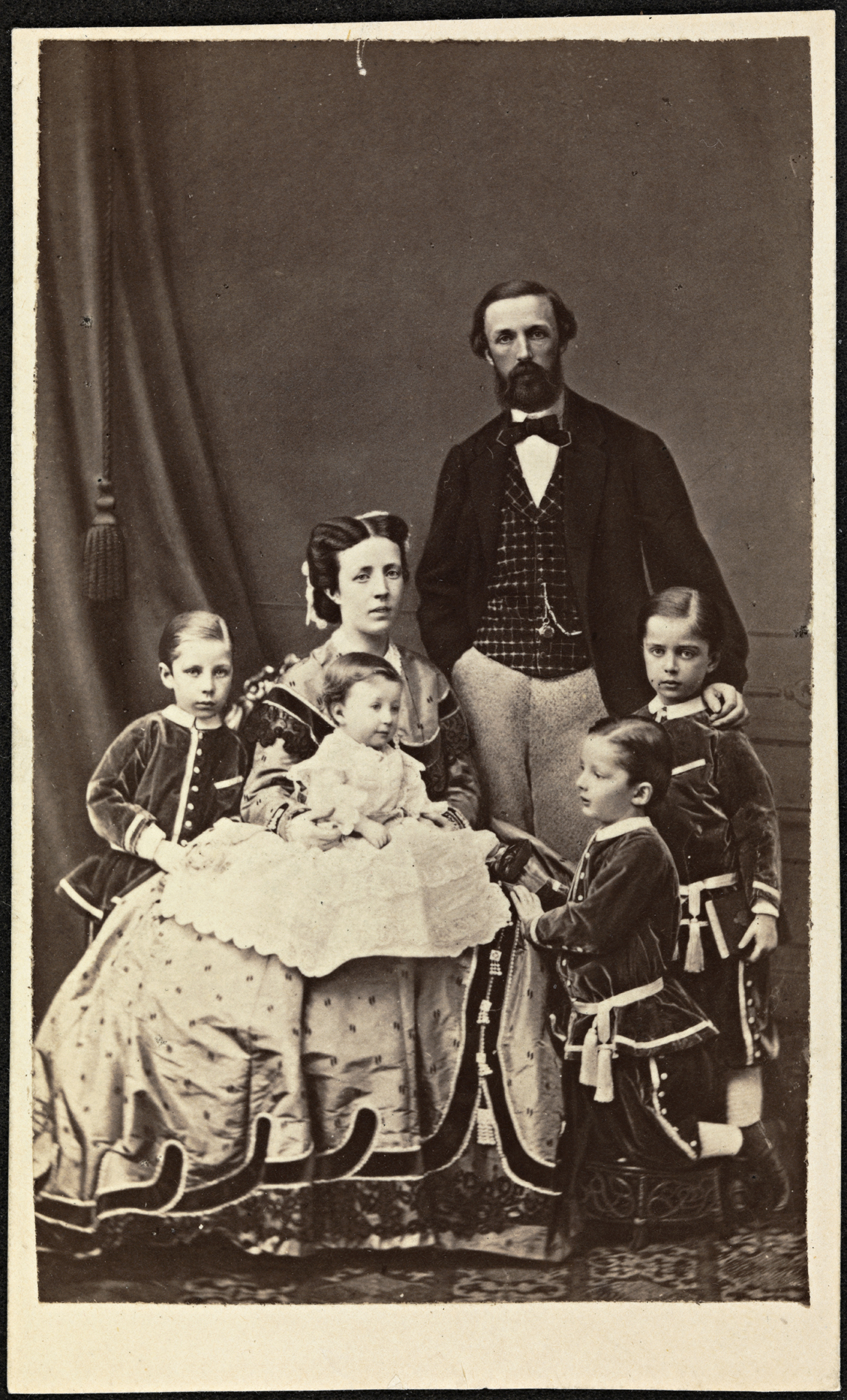 Motiv / Motif: Visittkort / Carte de visite. Barna fra venstre: Gustaf (1858-1950), Eugen (1865-1947), Oscar (1859-1953), Carl (1861-1951, foran). Oscar 2 var den siste unionskongen som regjerte i både Norge og Sverige. Dato / Date: desember 1865 (1866?) Fotograf / Photographer: W. A. Eurenius & P. L. Quist (Stockholm) Sted / Place: Sverige, Stockholm Eier / Owner Institution: Nasjonalbiblioteket / National Library of Norway Lenke / Link: Bildesignatur / Image Number: blds_04726